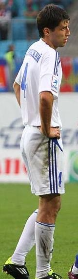 Sergey Sosnovski with FC Tom Tomsk.